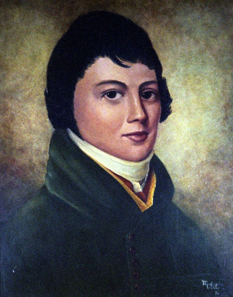 Official gubernatorial portrait of George Izard, second territorial governor of Arkansas (1825–1828), after whom Izard County was named (Courtesy of the Arkansas Secretary of State's Office and the Old State House Museum).